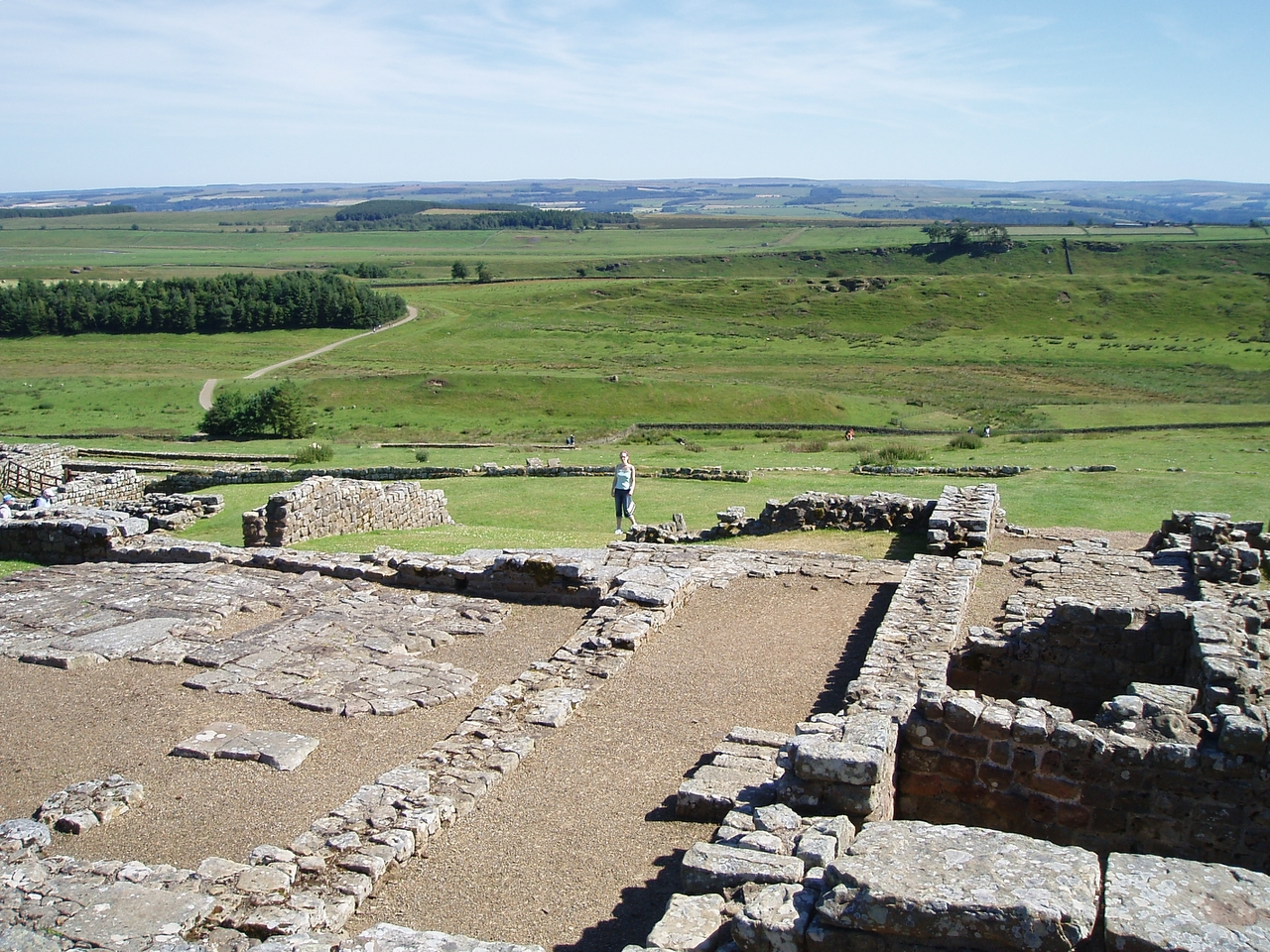 Praetoritum (Commandant's House) at Housesteads Roman Fort